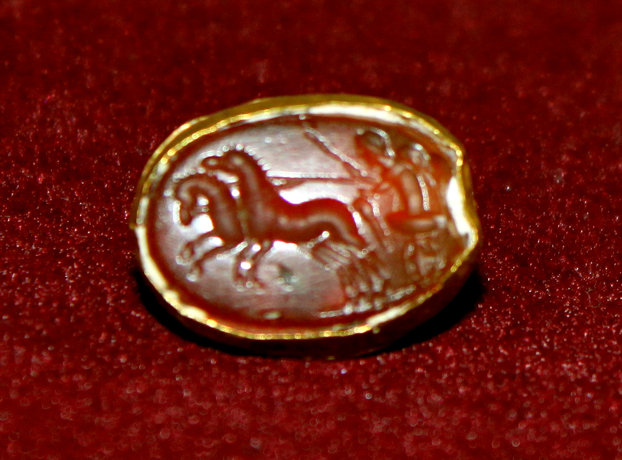 Möhür-qızıl üzük, İsmayıllı, I-III əsrlər, Qafqaz Albaniyası